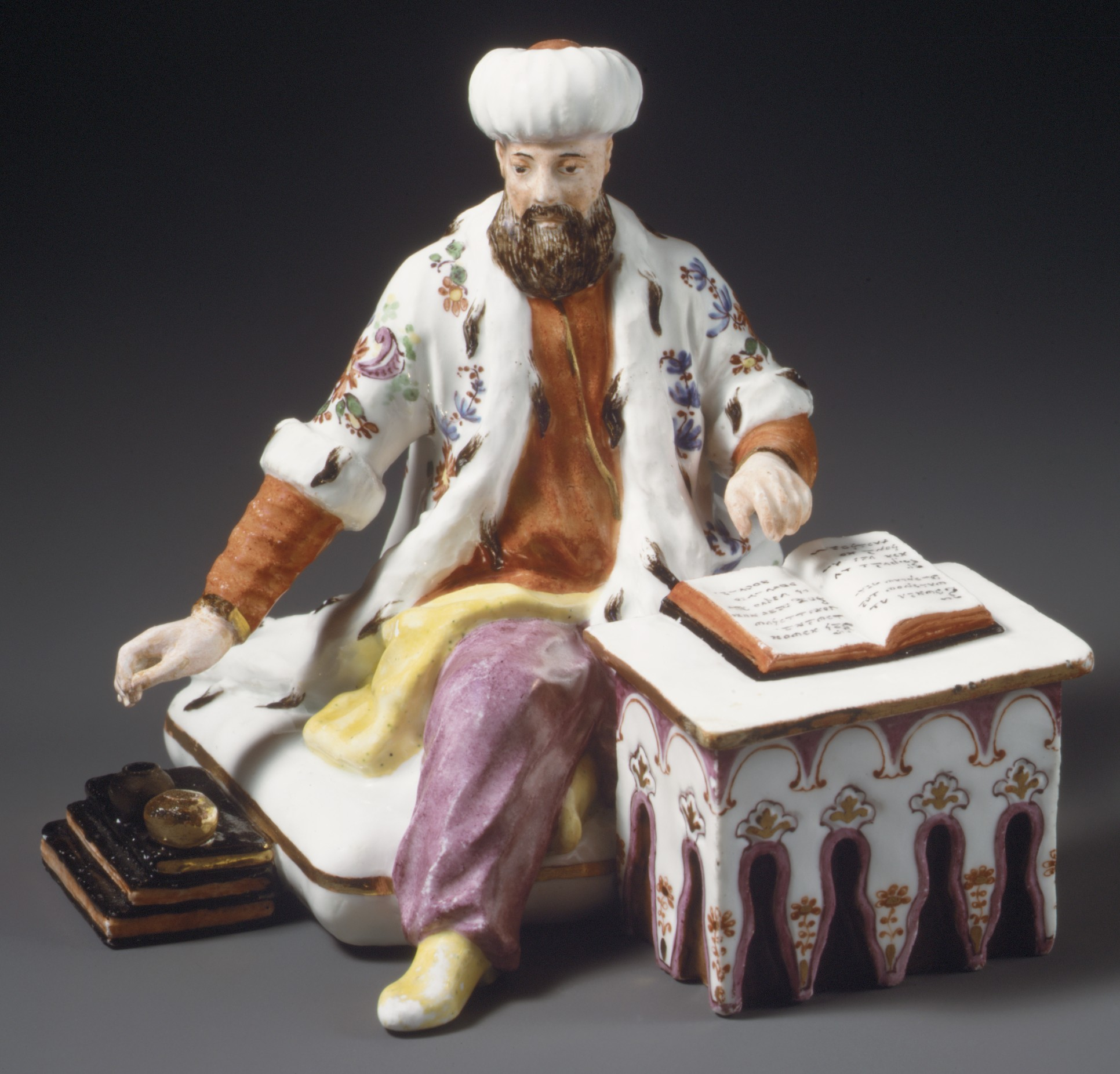 German, Thuringia, Kloster-Veilsdorf; Figure; Ceramics-Porcelain